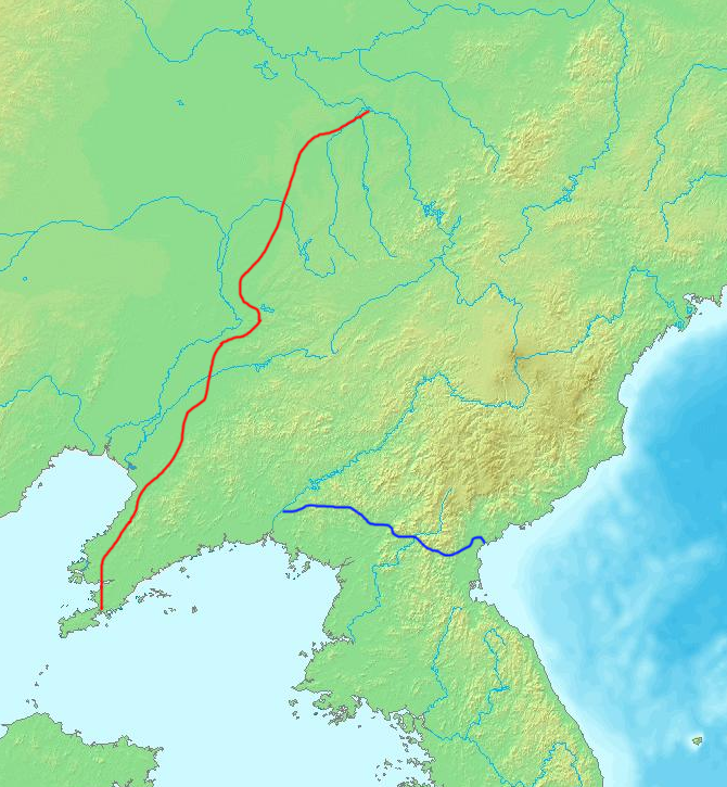 Cheolli Jangseong: Red: Goguryeo's Cheolli Jangseong. Blue: Goryeo's Cheolli Jangseong.